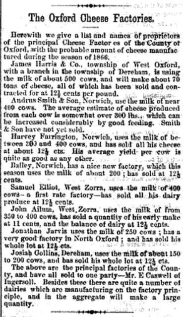 news story describing Oxford County cheese factories in 1866